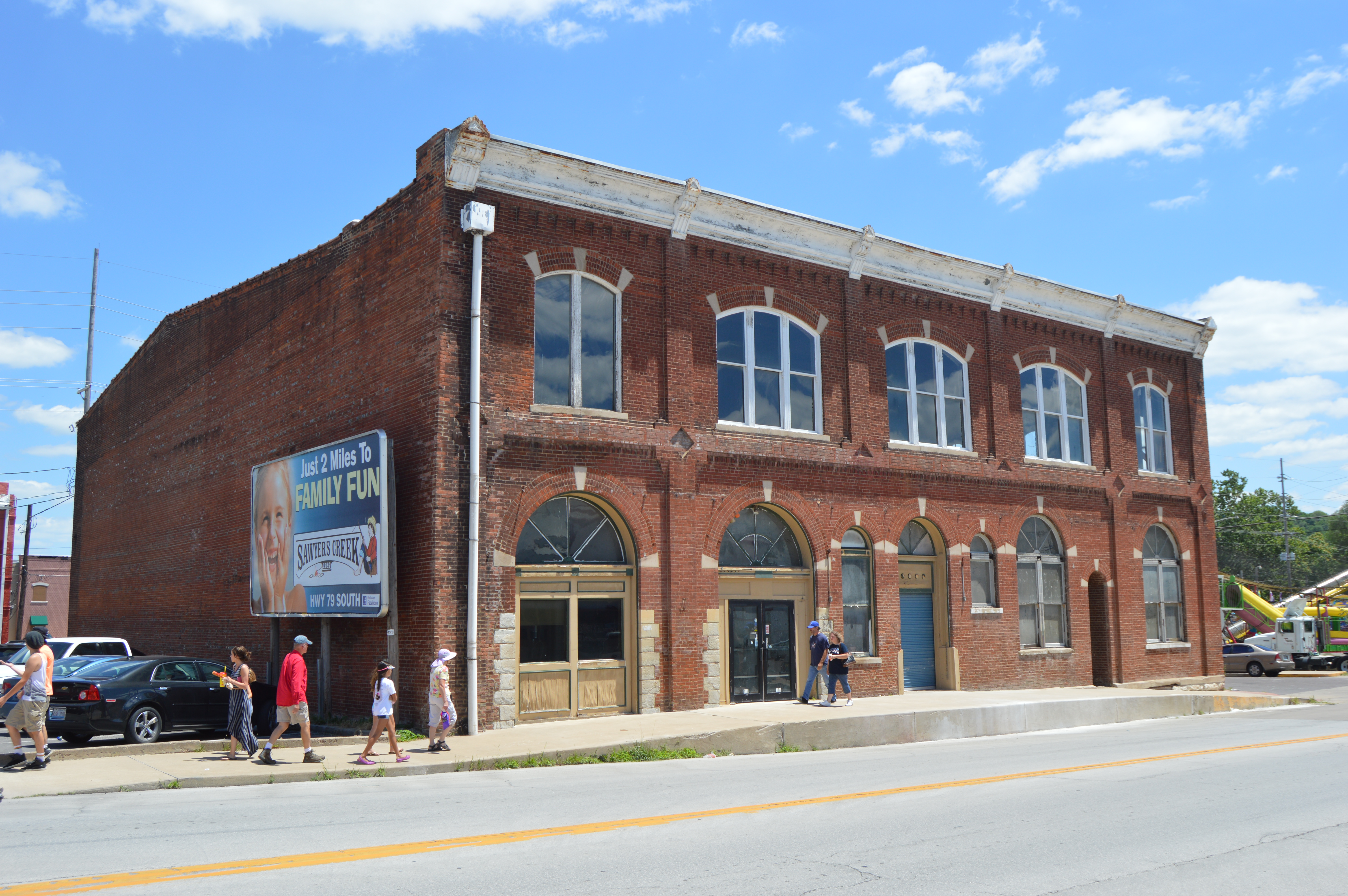 Front and northern side of Robert Elliott's Wholesale Grocery, located at 116-120 S. Third Street (Route 79) in Hannibal, Missouri, United States. Built in 1886, it is listed on the National Register of Historic Places.